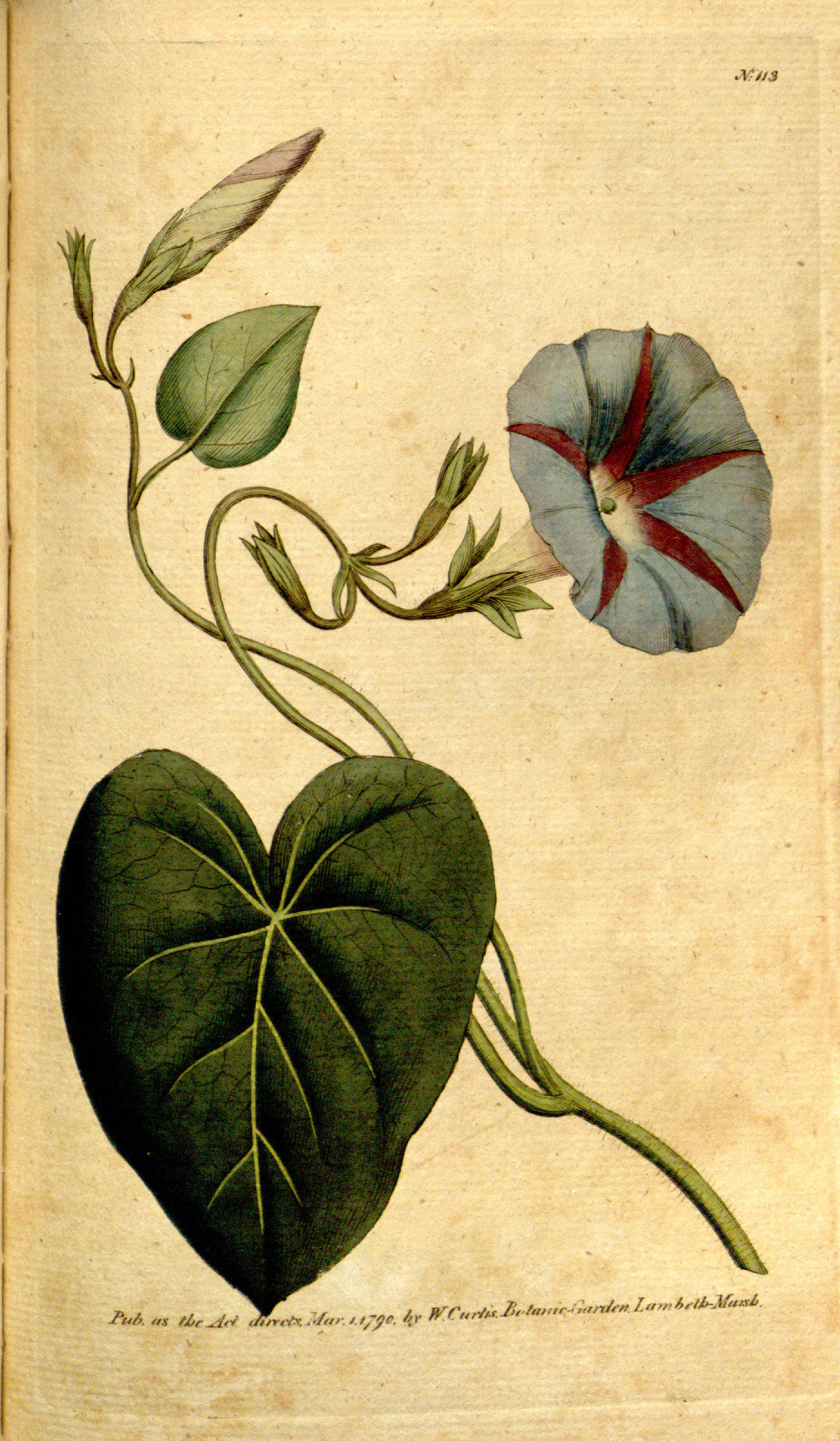 This is a plate from The Botanical Magazine, Volume 4.